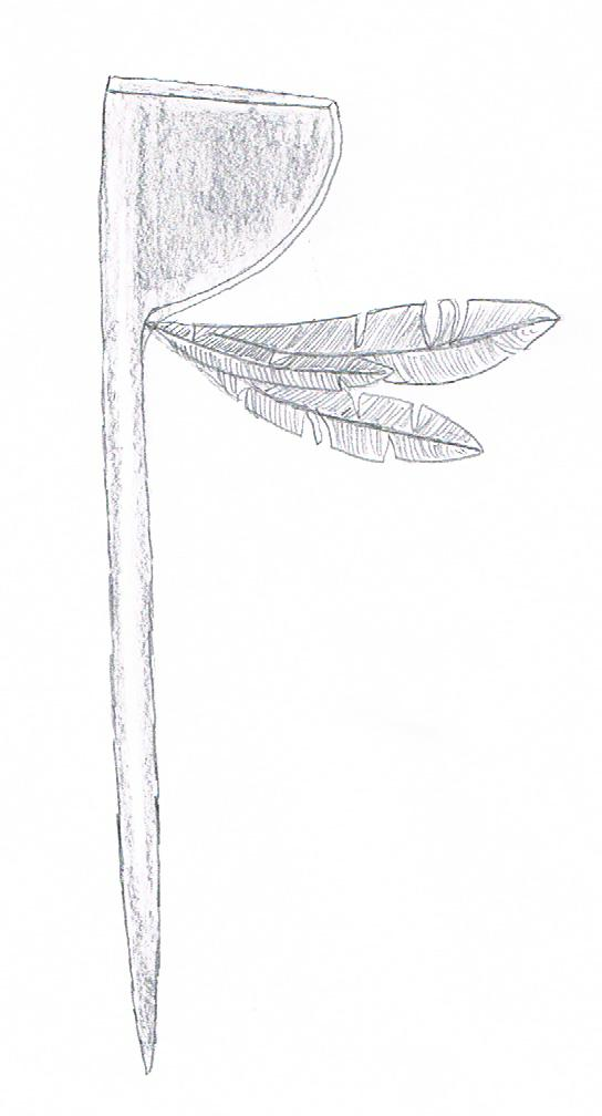 Tewha-Tewha